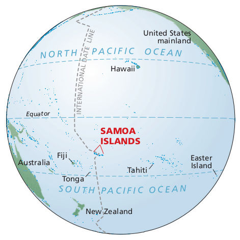 Pacific ocean map showing where American Samoa is in relation to the Equator, Fiji, Tahiti, Tonga, Hawaii, and the U.S. mainland – way out there in the Pacific Ocean.